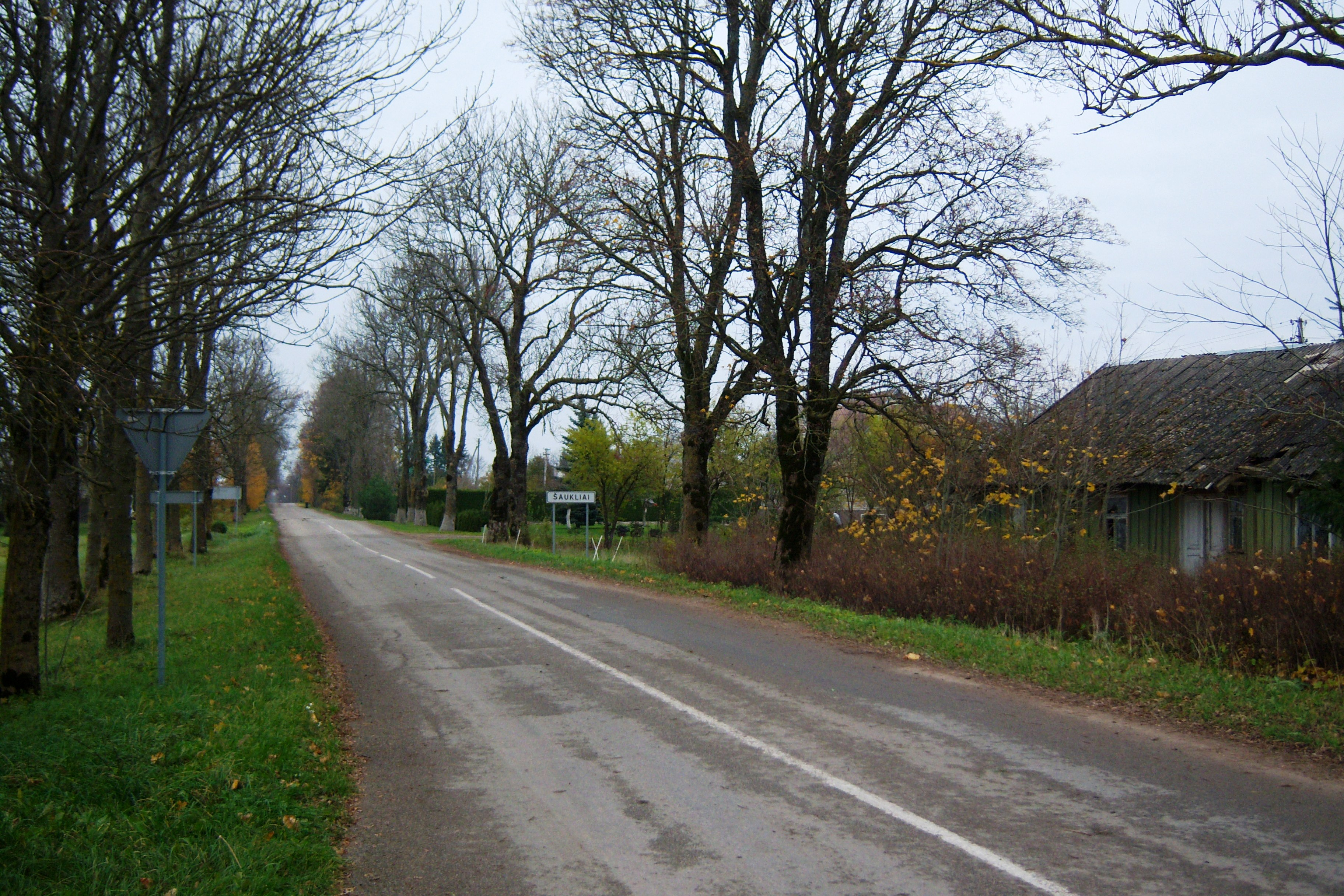 Šaukliai, Skuodas District. Lithuania